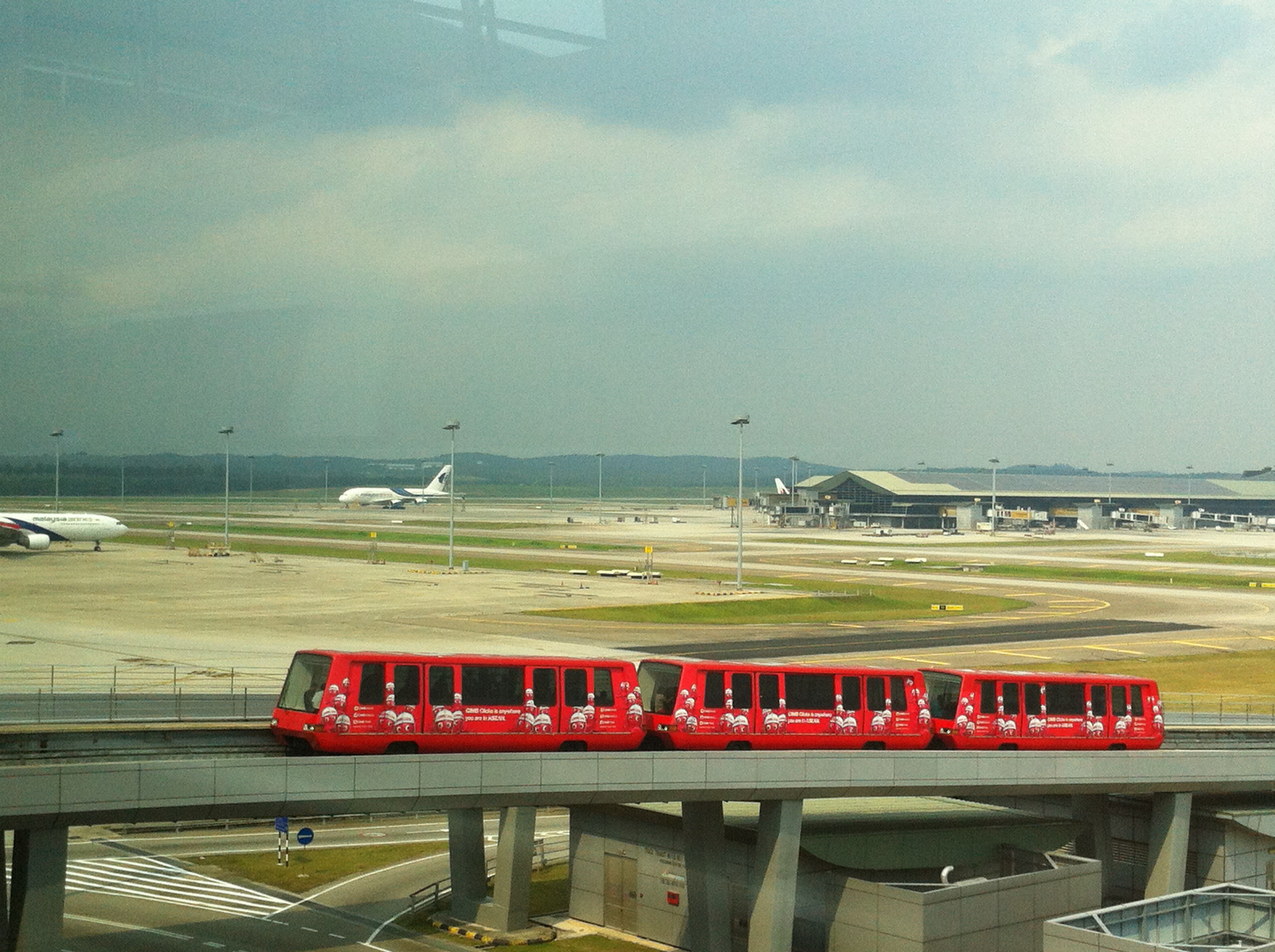 klia aerotrain 3-cars trainset